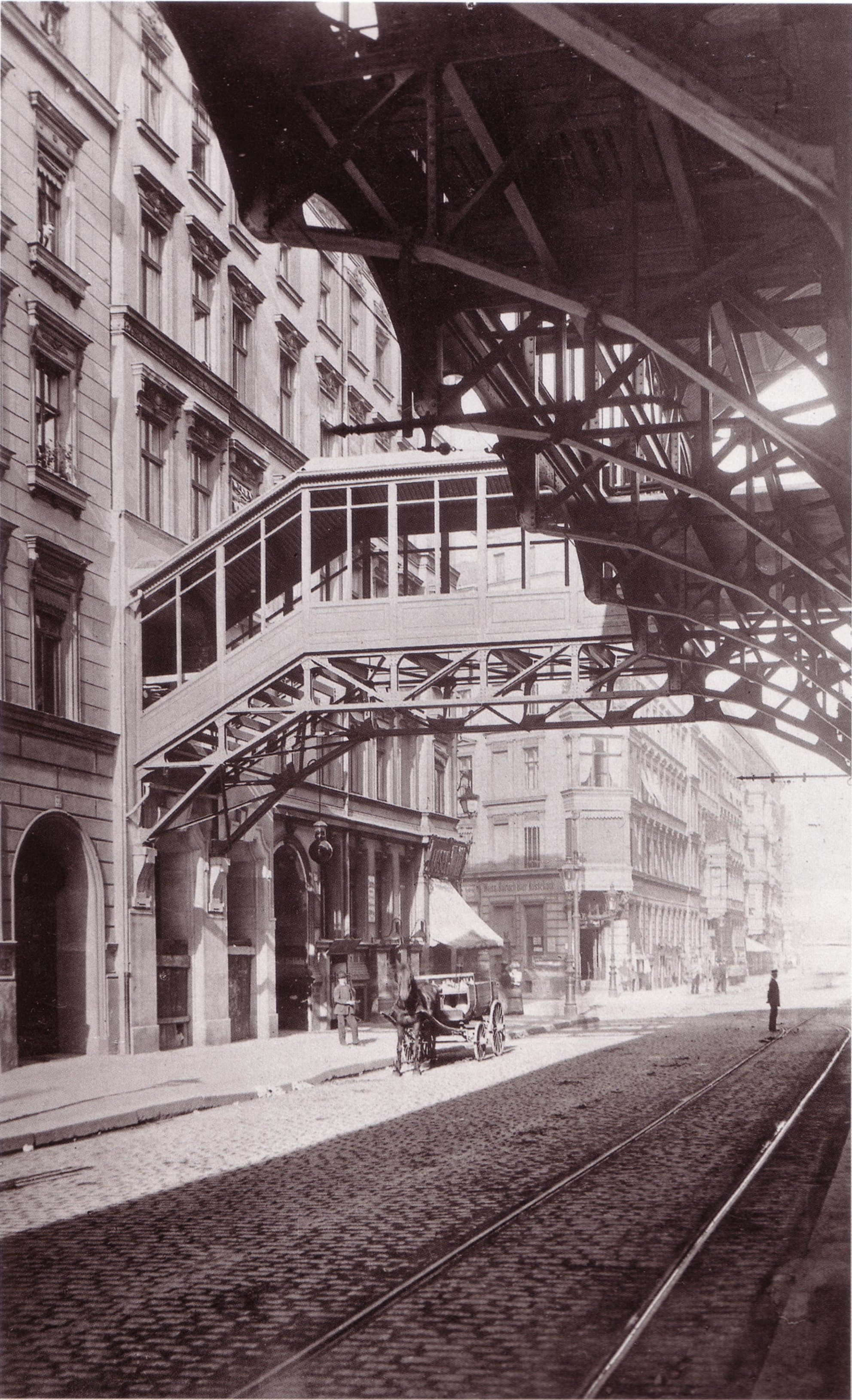 The Berlin U-Bahn station "Prinzenstraße", entrance on Gitschiner Straße 71/72